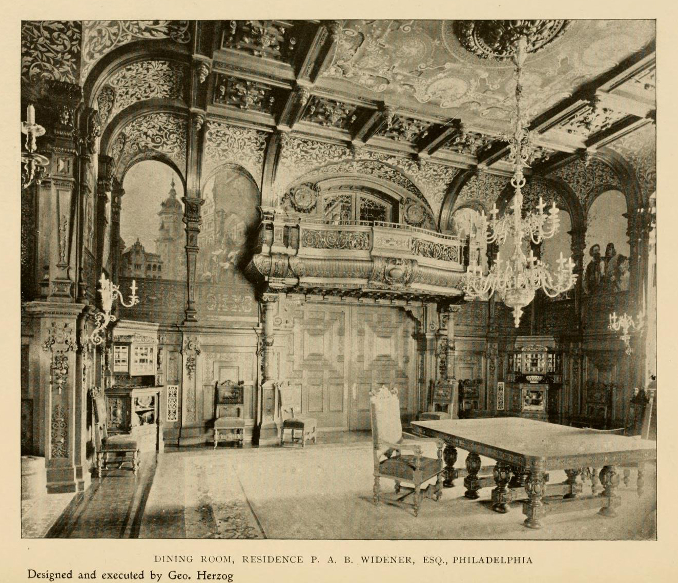 Dining Room, Residence P. A. B. Widener, Esq., Philadelphia.